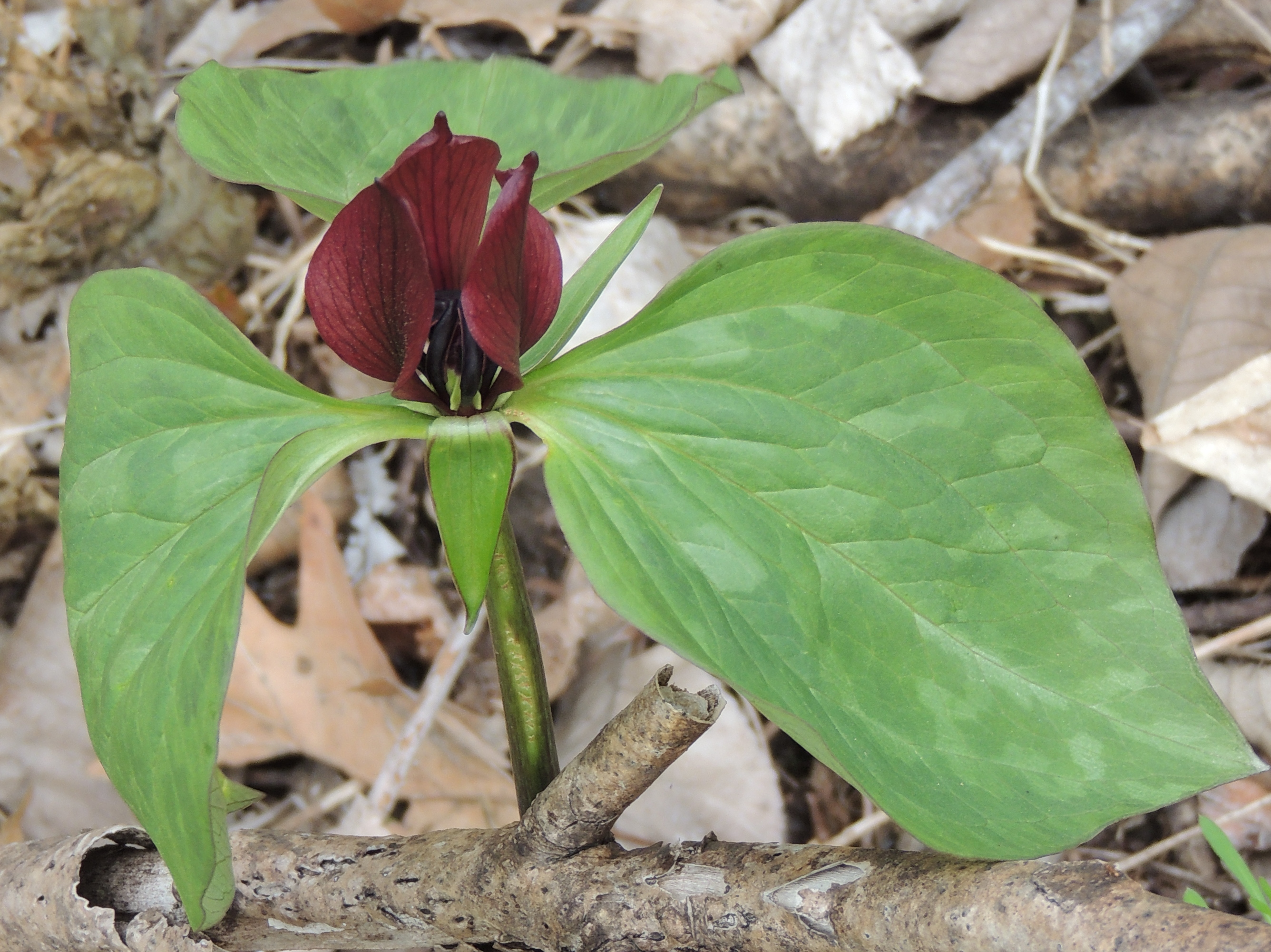 Trillium recurvatum — Prairie trillium. At Black Hawk State Historic Site, in Rock Island, Illinois.